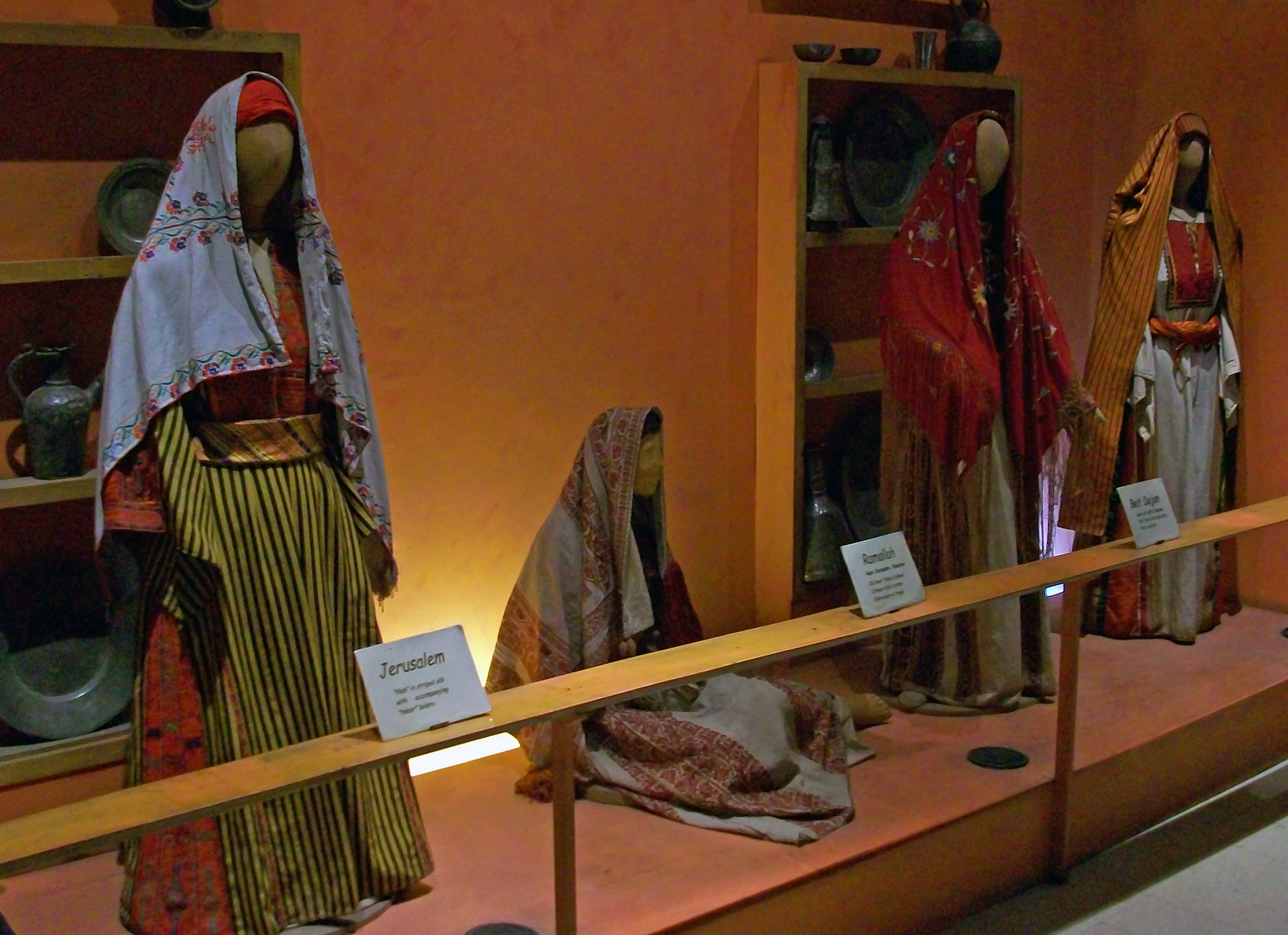 Women's attire from various parts of Jordan and the West Bank at the Jordan Museum of Popular Traditions in Amman